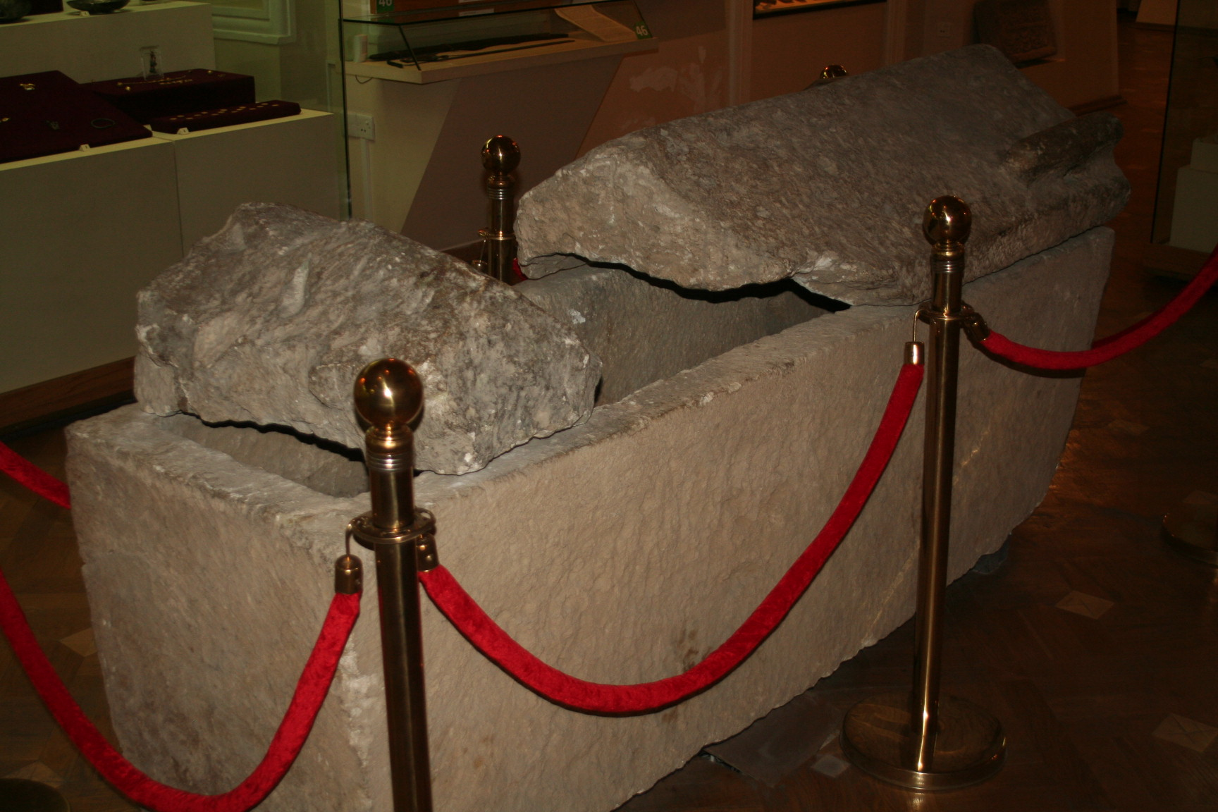 Stone sarcophagus from Aghdam. VII—IX cc. Museum of History of Azerbaijan.